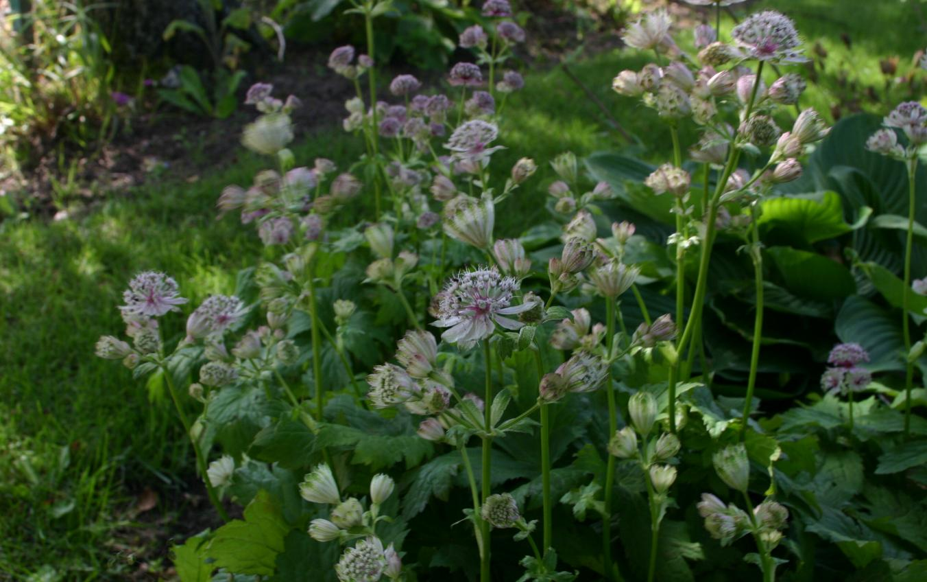 Astrantia major: Flowers.